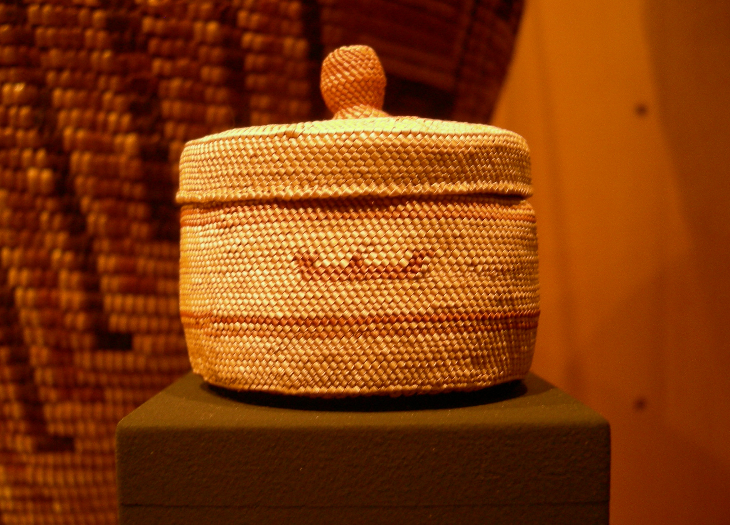 Makah basket, Washington State History Museum. Wrapped-twine cedar bark and grass.